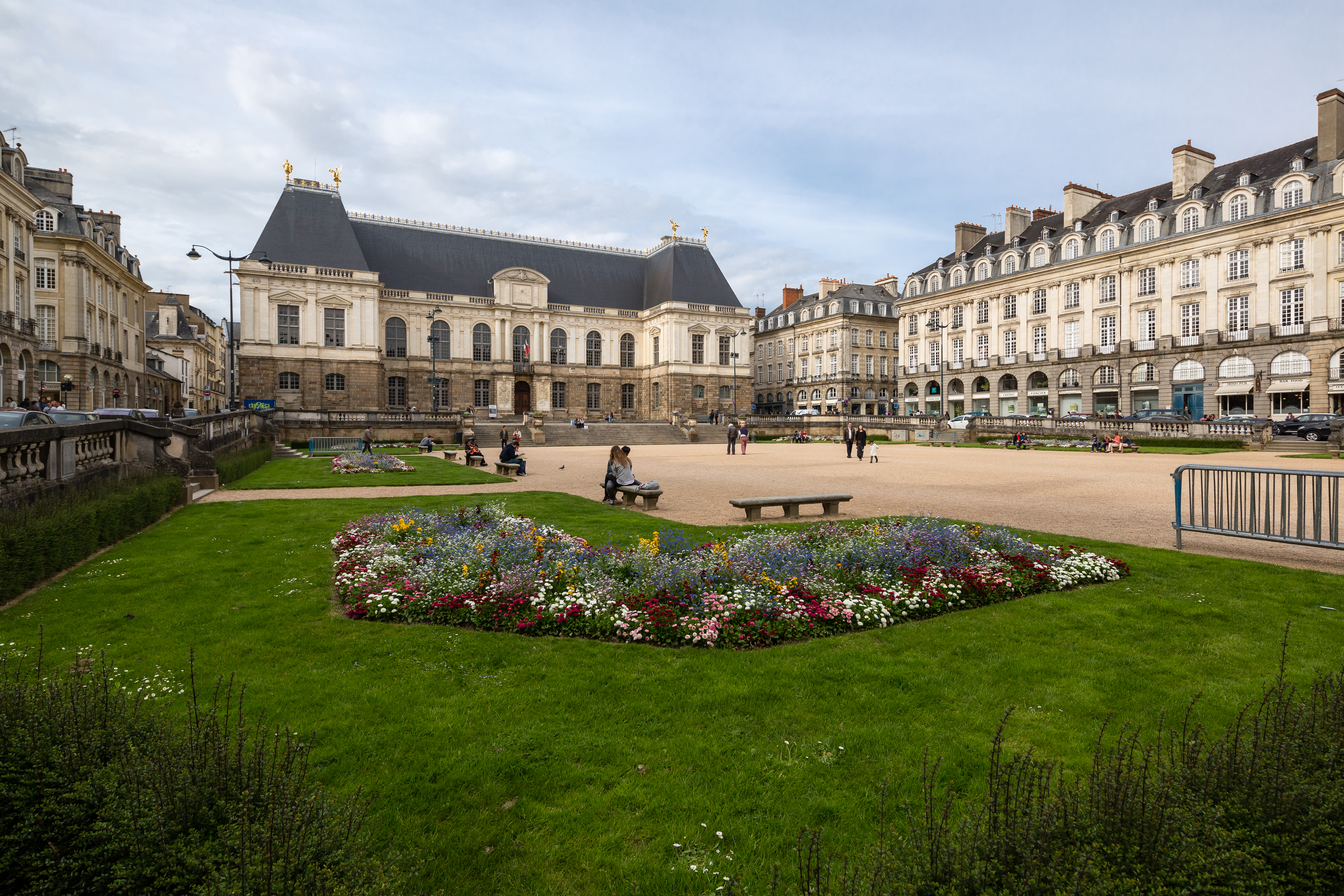 General view of the place du parlement de Bretagne in Rennes (France), from its south-western corner.